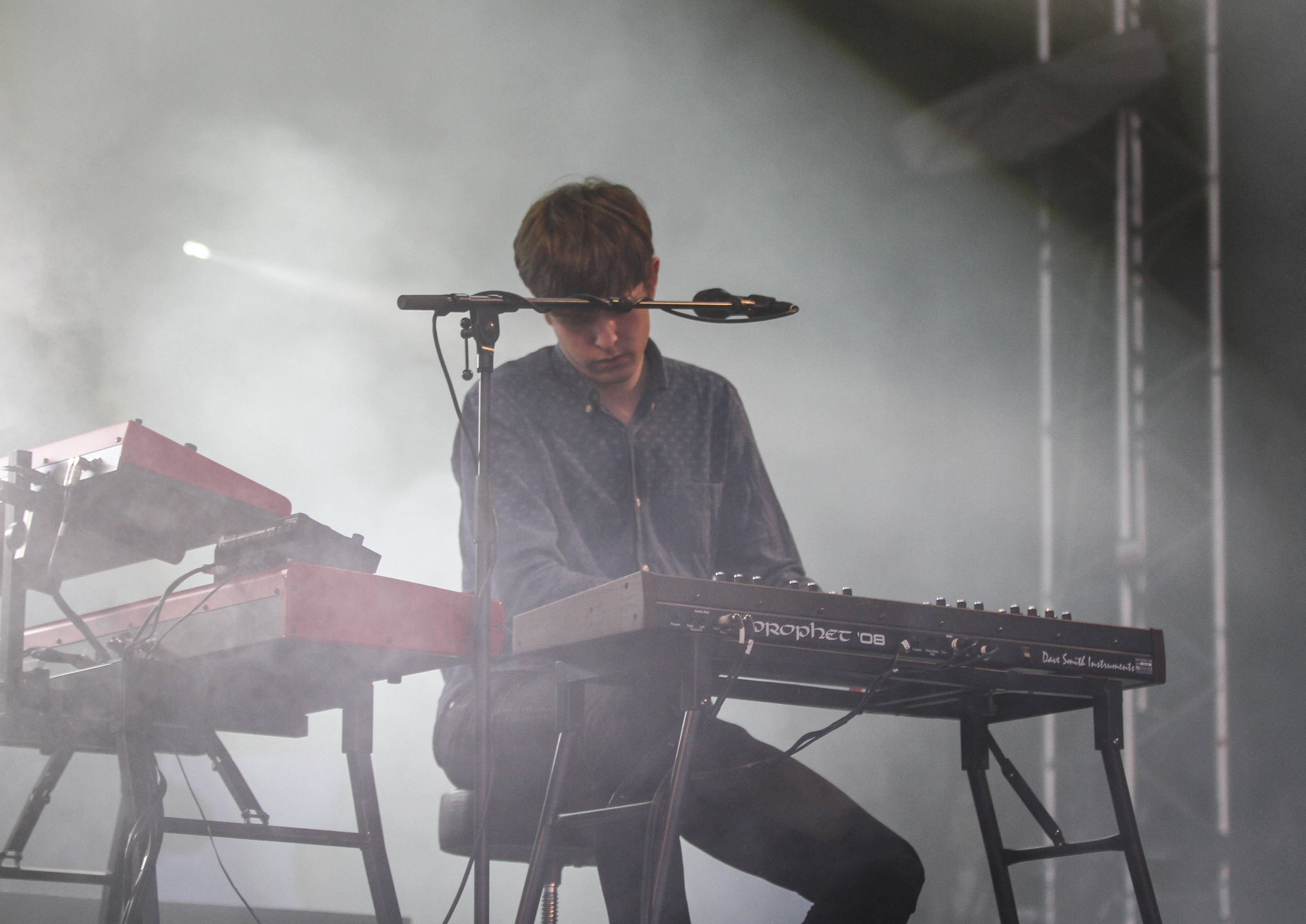 James Blake performing at Melt! Festival 2013